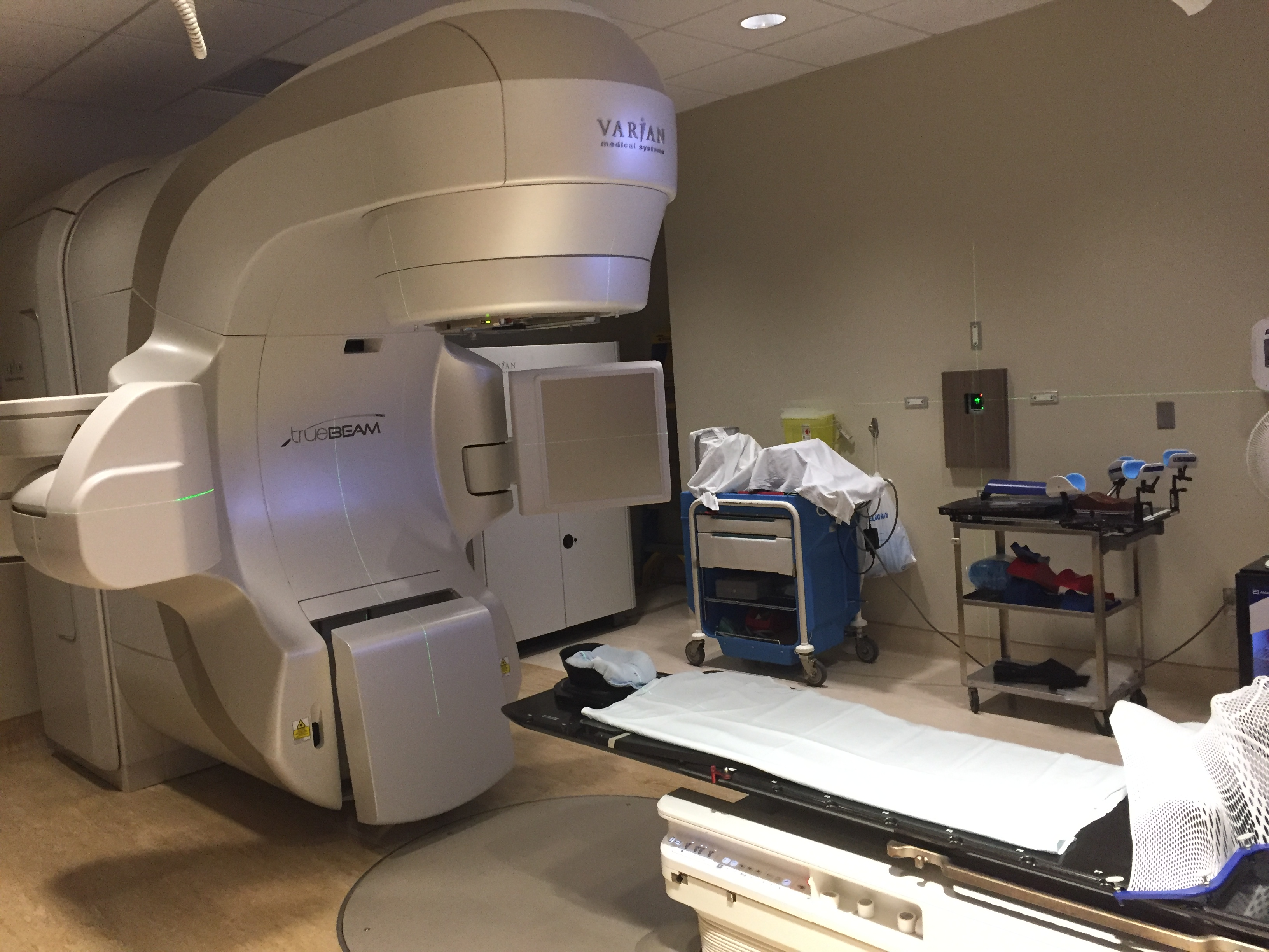 Varian TruBeam Linear Accelerator